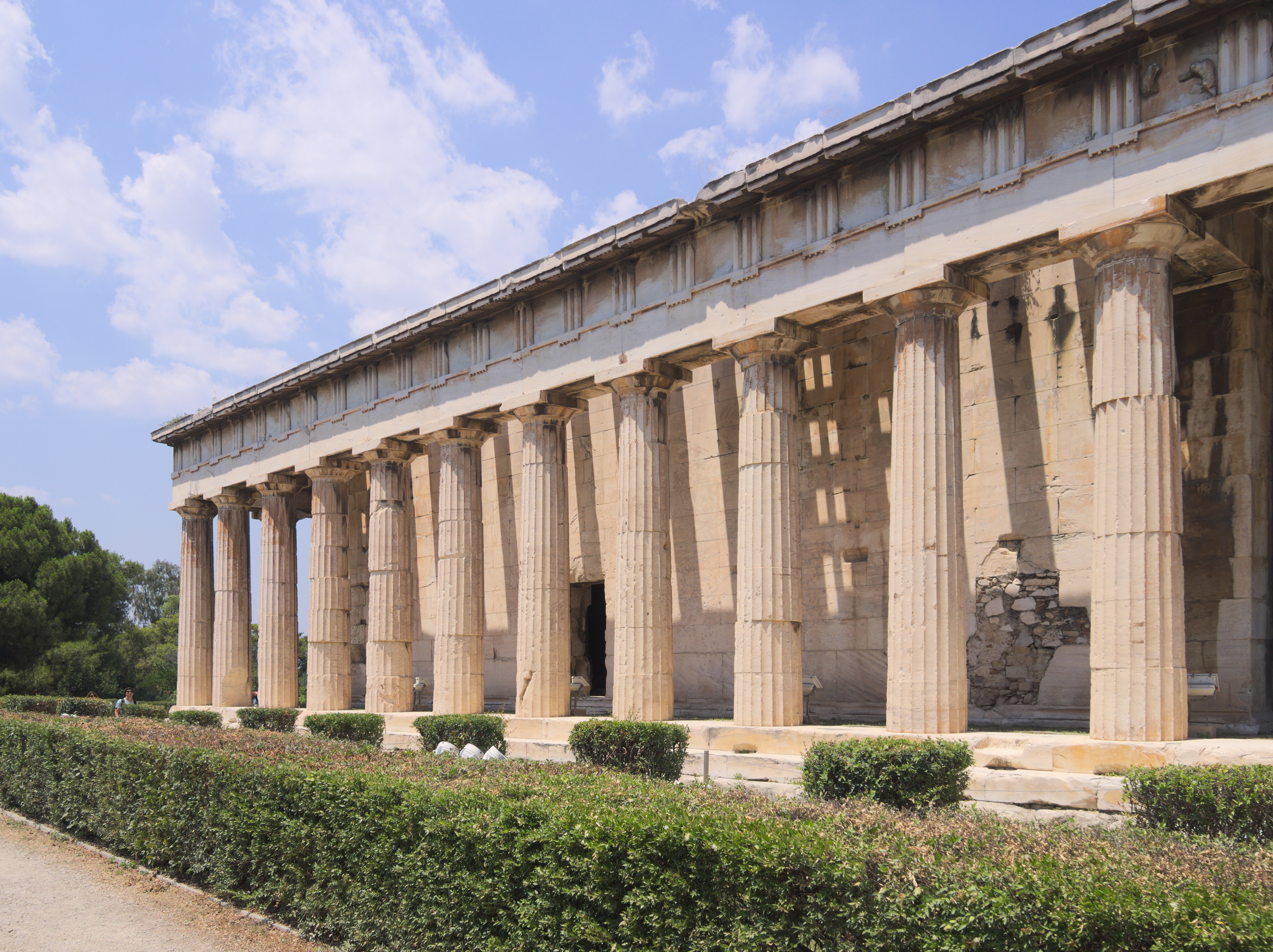 View of the south facade of the Temple of Hephaestus in Athens, also known as Thisio.